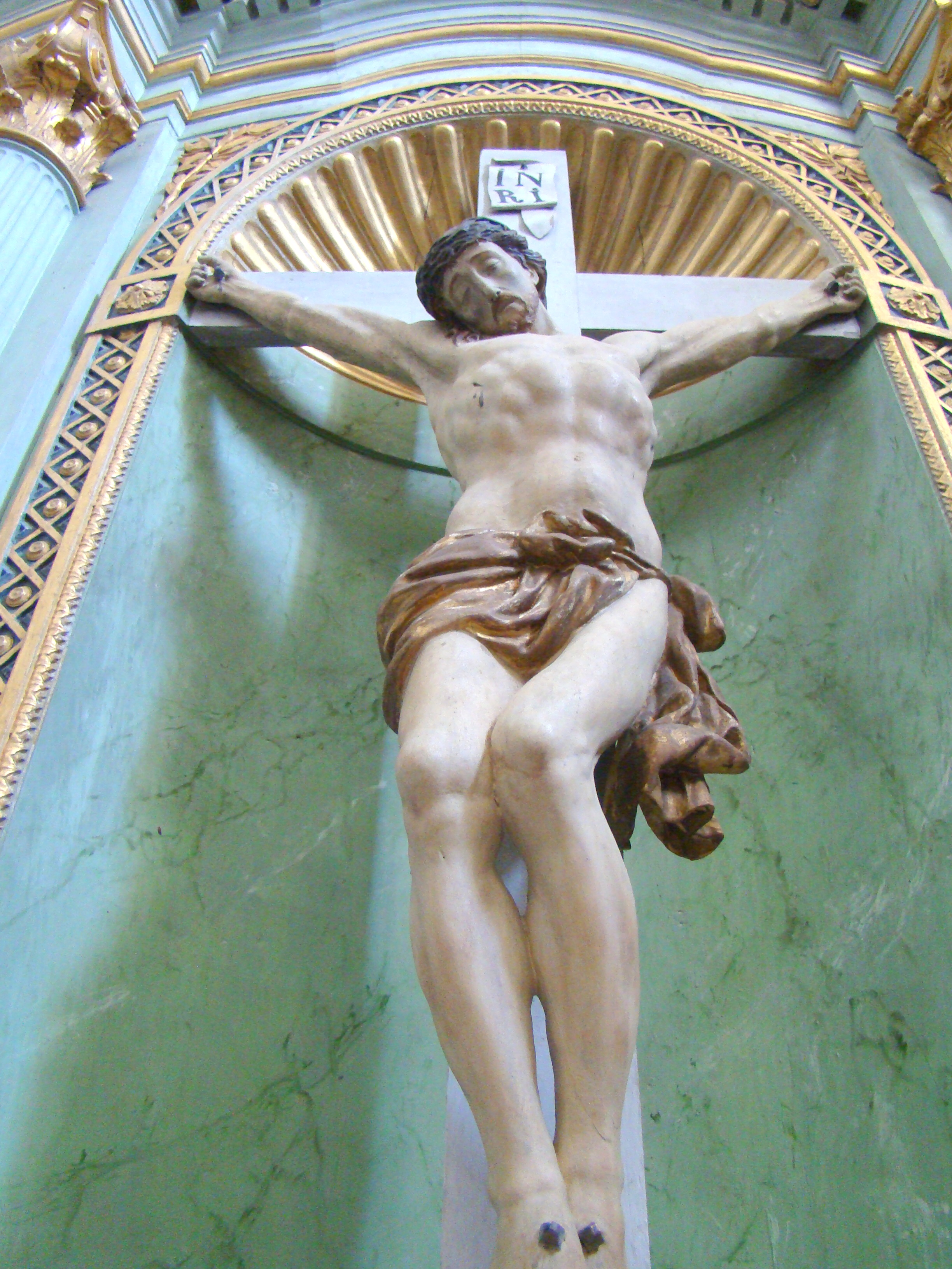 Fortified church in Bunești, Brașov County, Romania